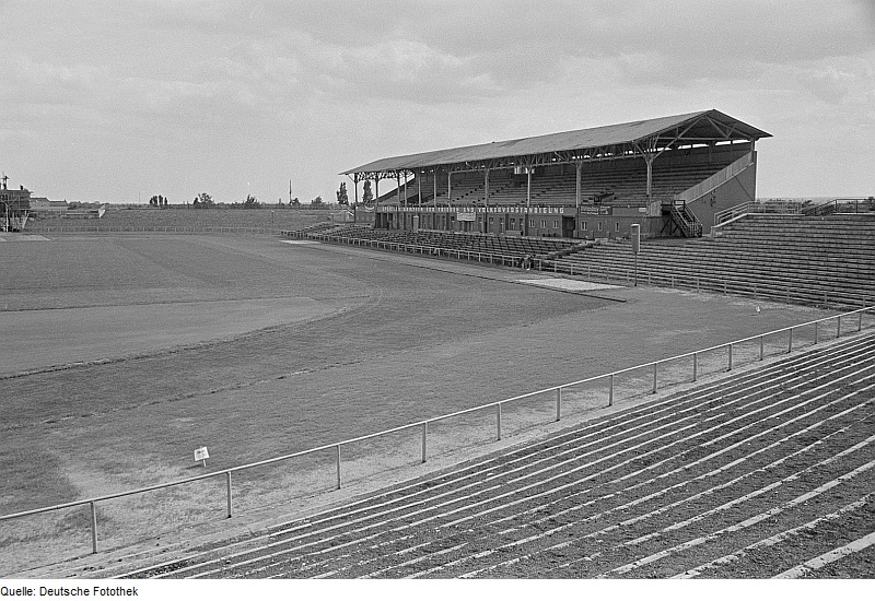 Original image description from the Deutsche Fotothek Blick in das Stadion